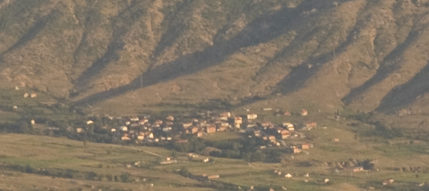 The village of Selce, near Prilep